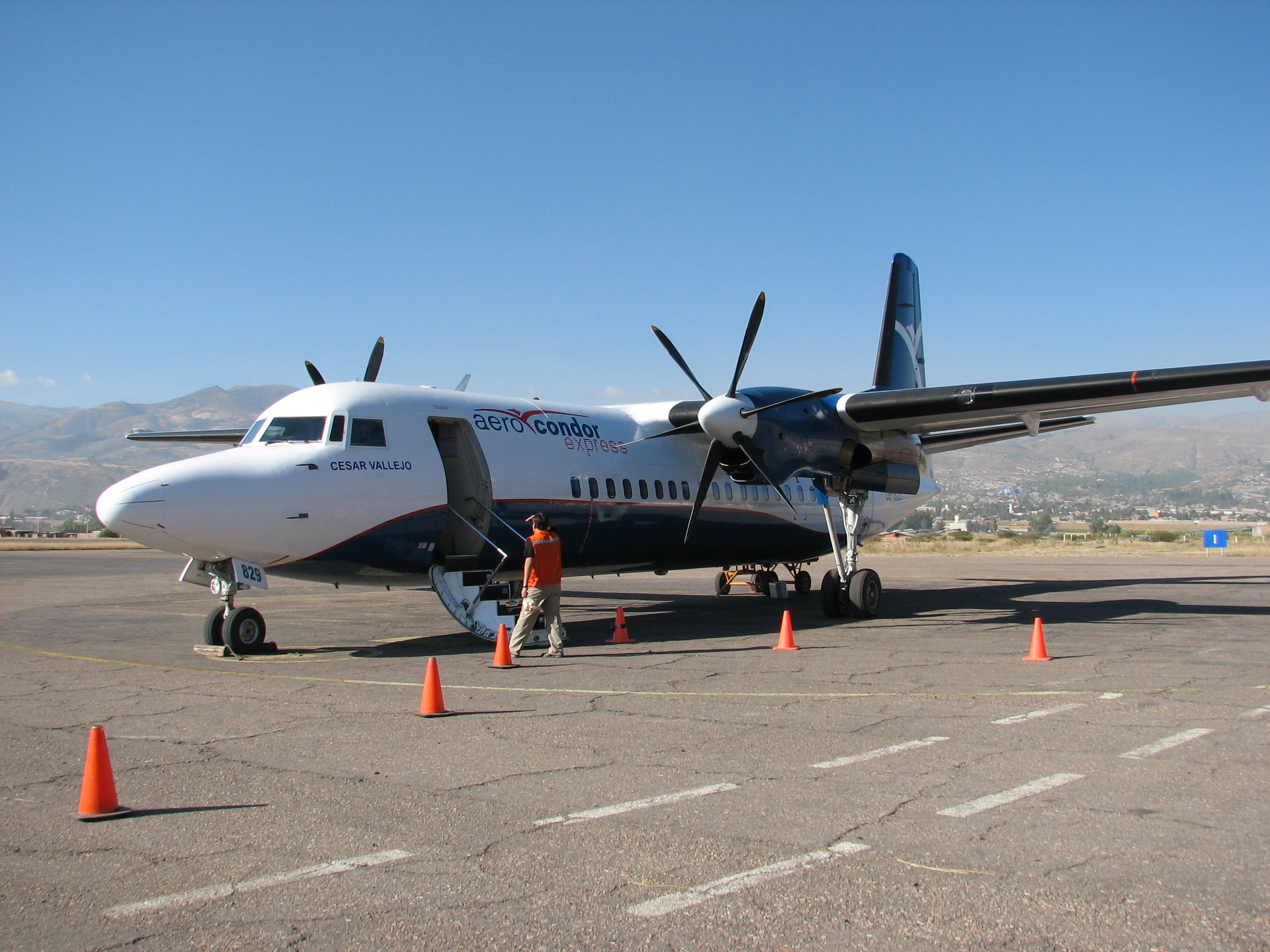 Aero Condor Peru aircraft (Fokker F50) at Coronel FAP Alfredo Mendívil Duarte Airport in Ayacucho, Peru.